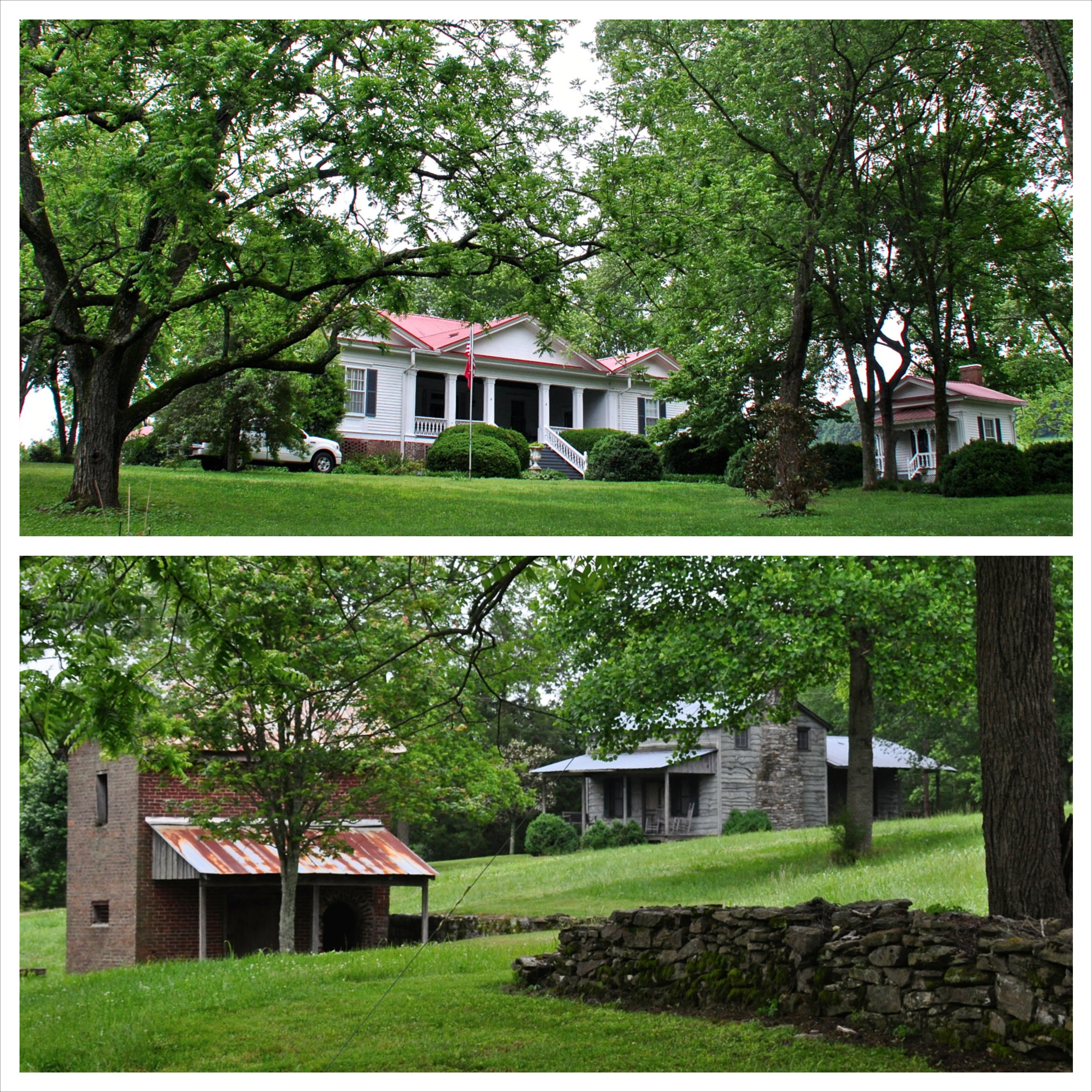 Located near Brick Church, Giles County, Tennessee. NRHP #95001088, listed September 7, 1995